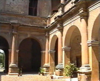 Castle Kaceřov - inner arcades